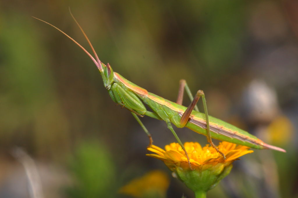 Apteromantis aptera from São Brissos (Beja) – credit Eduardo Marabuto.